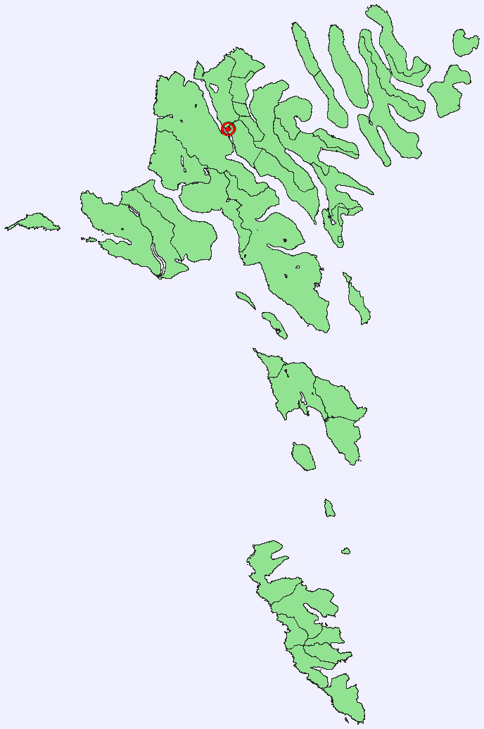 Position of Svínáir in the Faroe Islands Graphics: Arne List